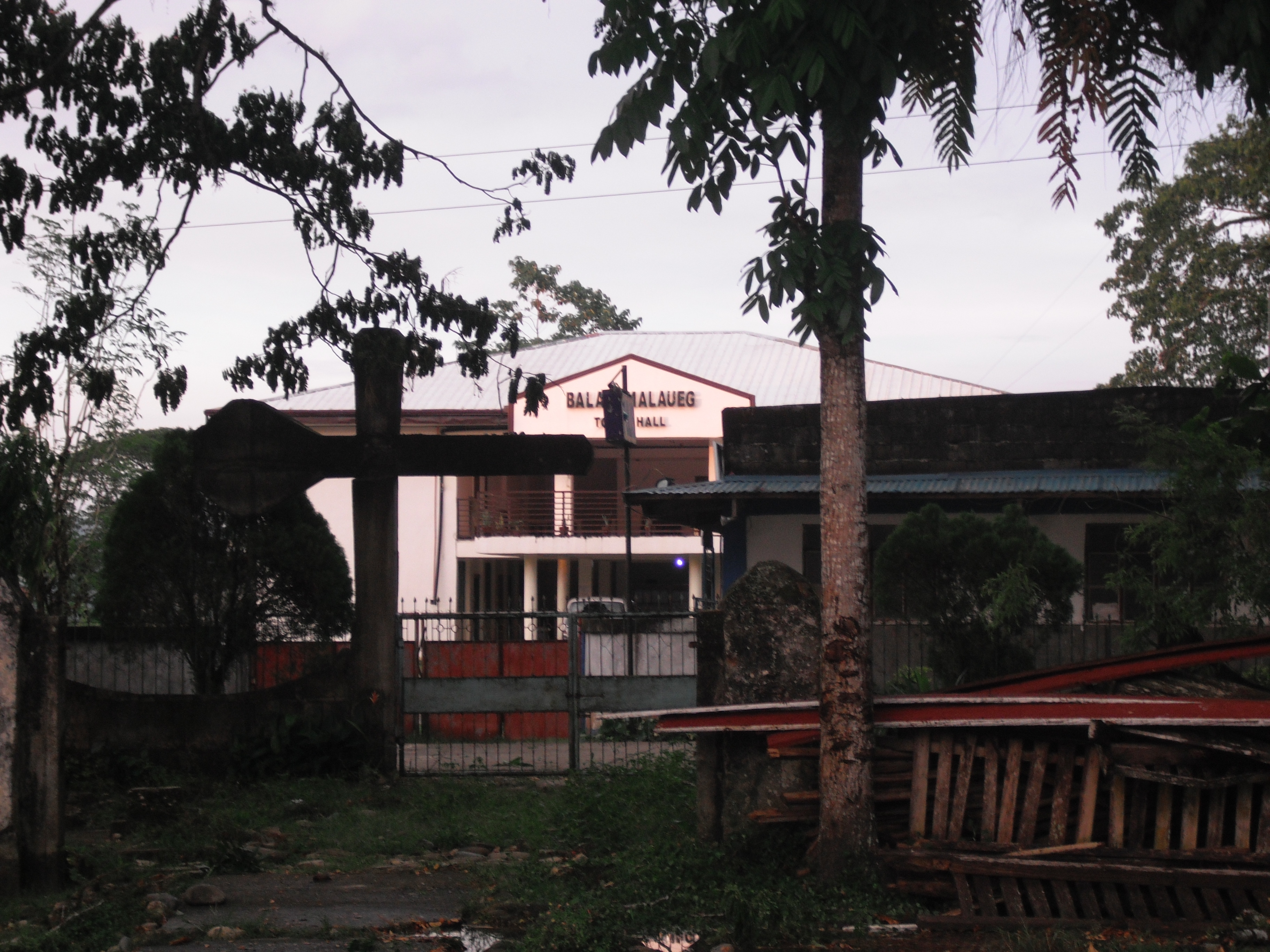 the oldest town hall